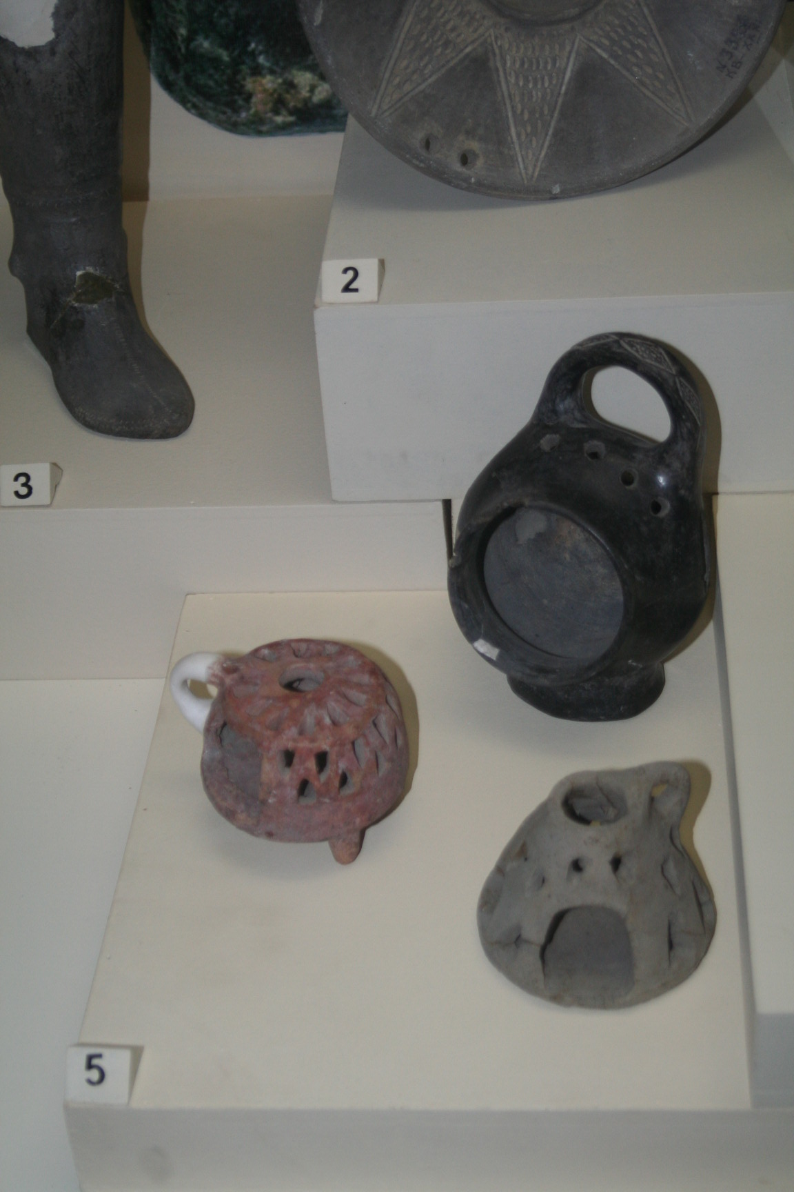 Clay chandeliers from Mingachevir and Uzuntepe. 13th-8th cc. B.C.